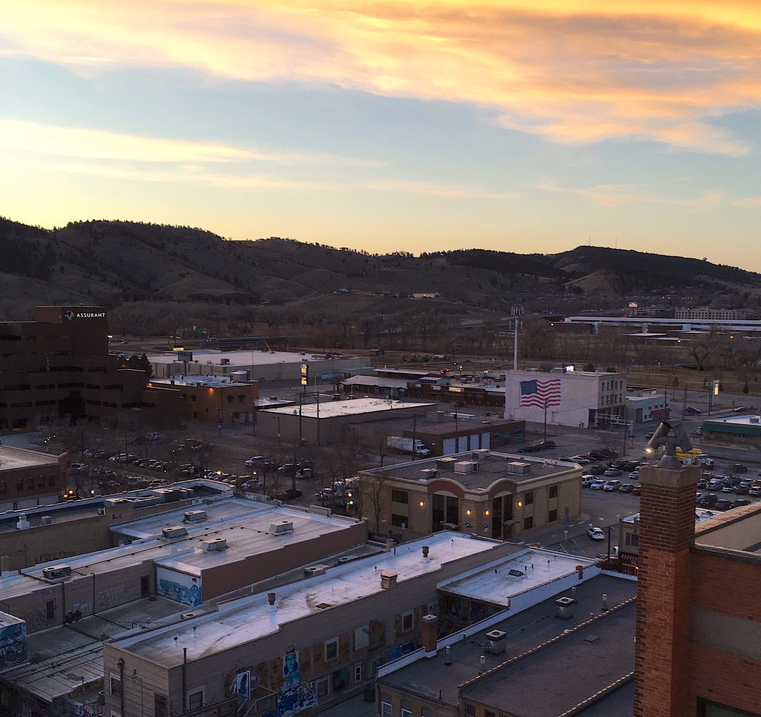 Rapid City, facing northwest from downtown